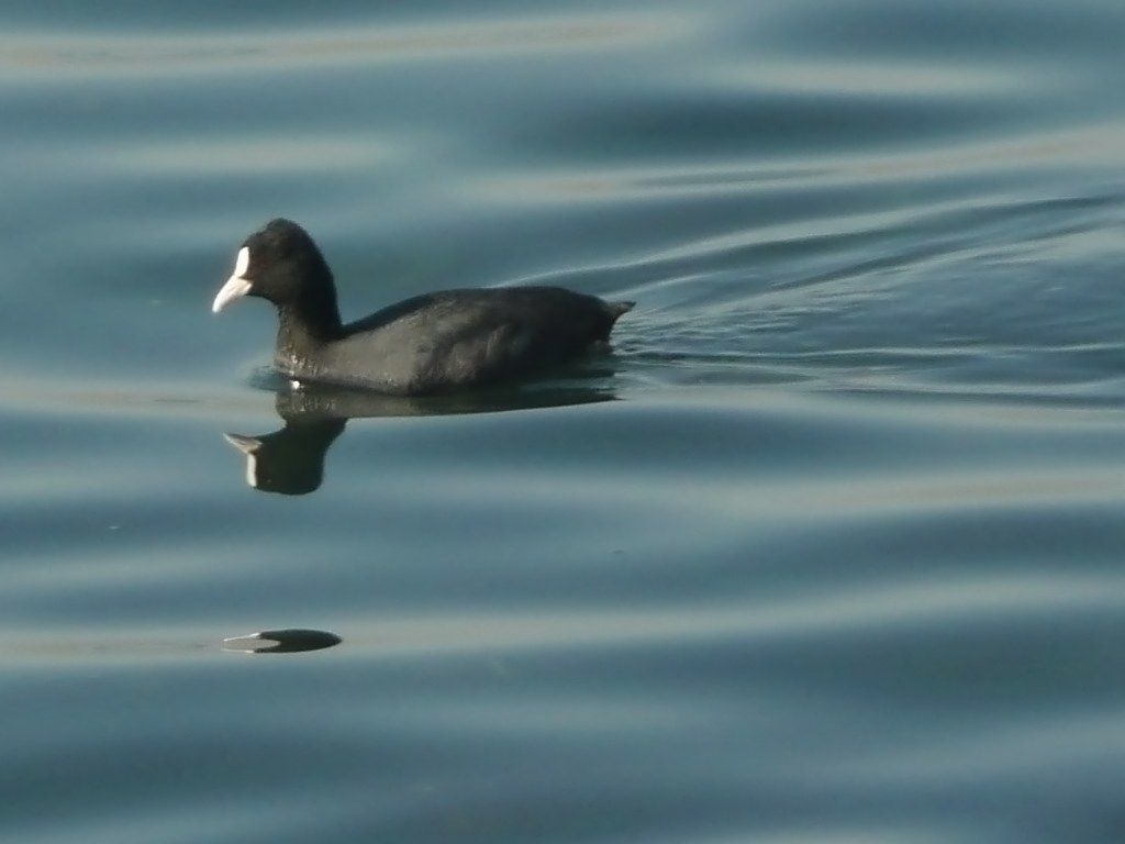 Coot, Istanbul - Turkey